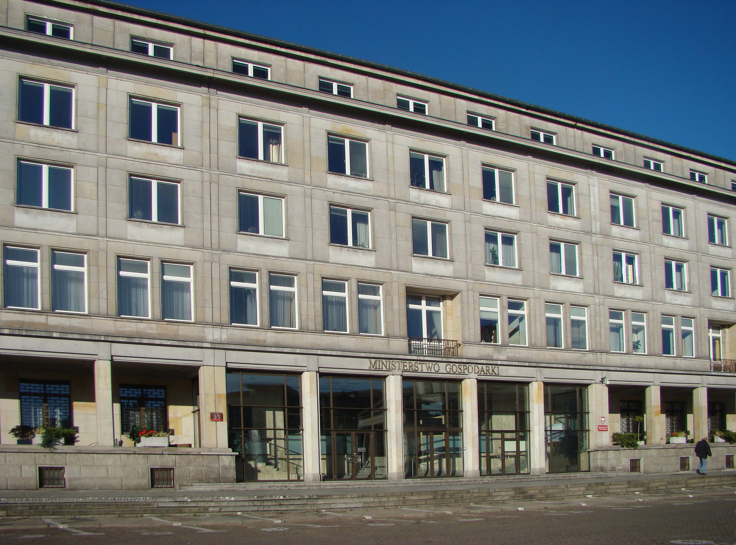 Ministry of Economic Affairs - main entrance